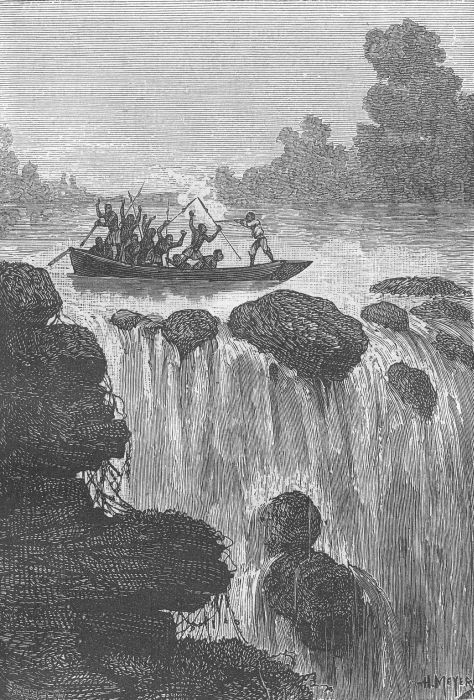 An ilustration from "Dick Sand, A Captain at Fifteen" by Jules Verne painted by Henri Meyer.